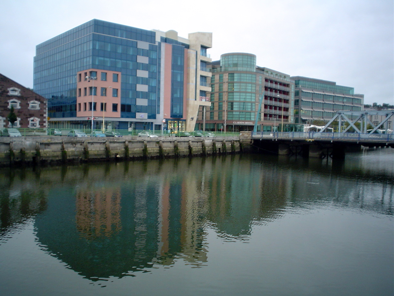 Cork - modern hotels on quay